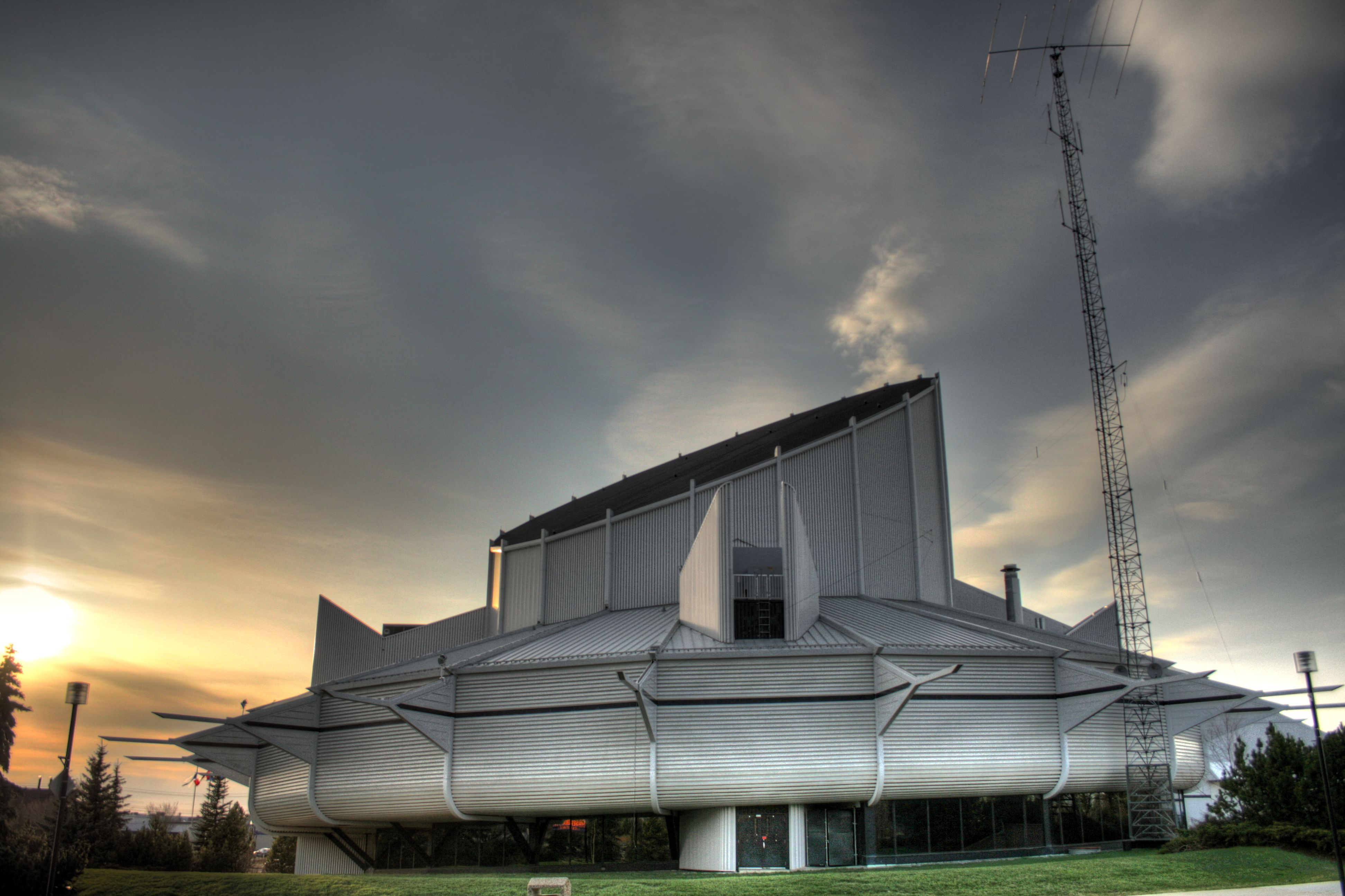 The main building of the Space and Science Centre in Edmonton, Alberta, Canada.